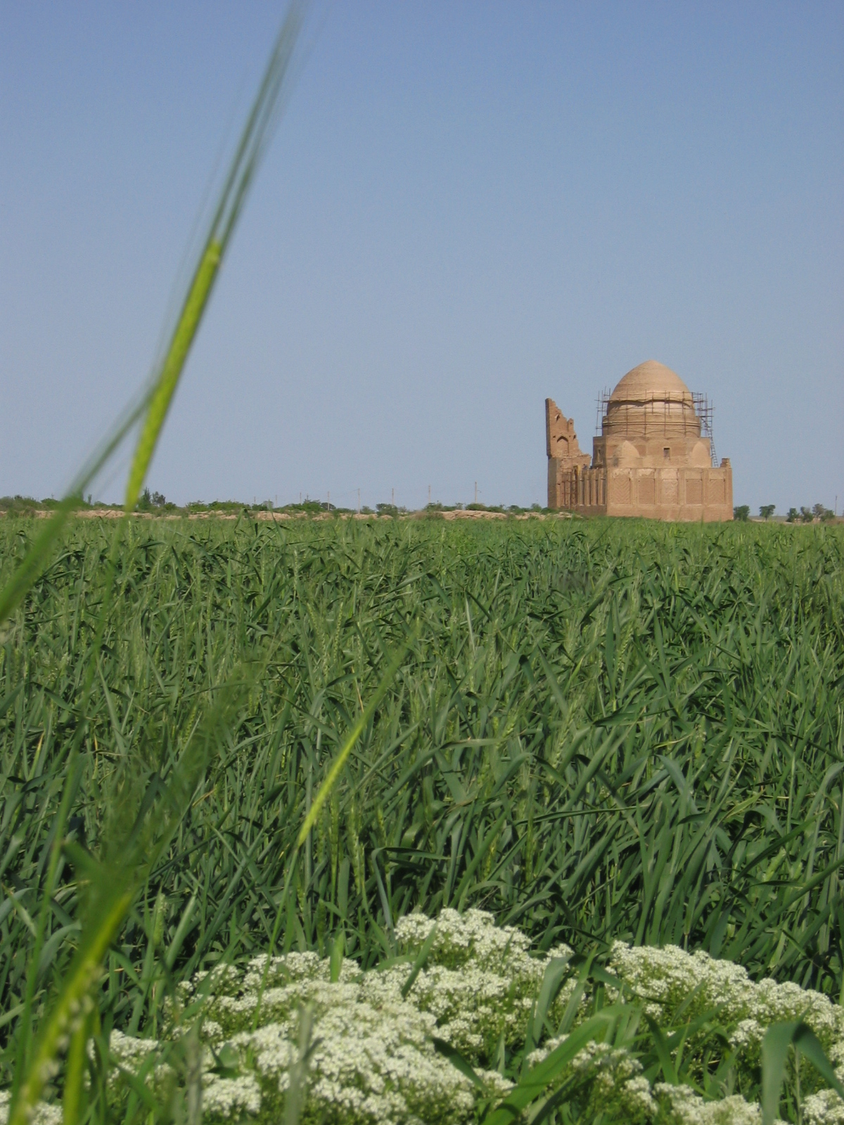 Sarakhs, Iran The 1356 Sheikh Loghman (Loghman Baba) tomb